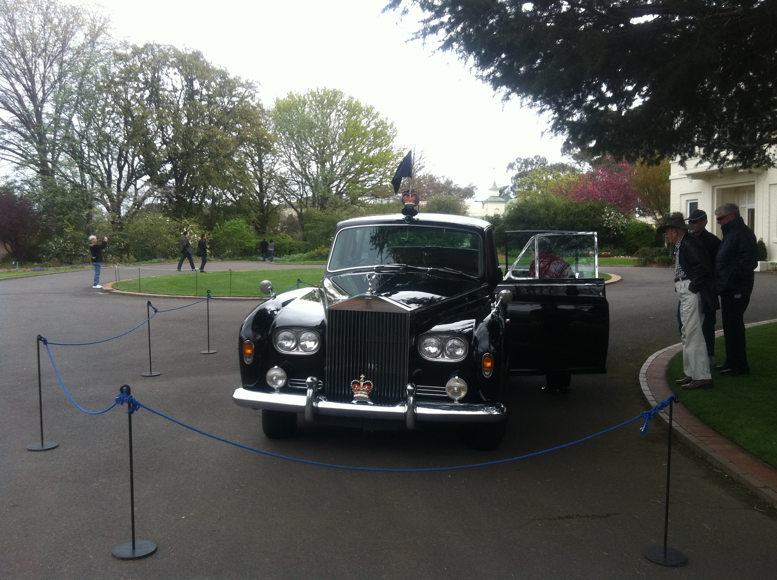 The Governor Generals' Rolls Royce at Government House, Yarralumla, Canberra, 2011